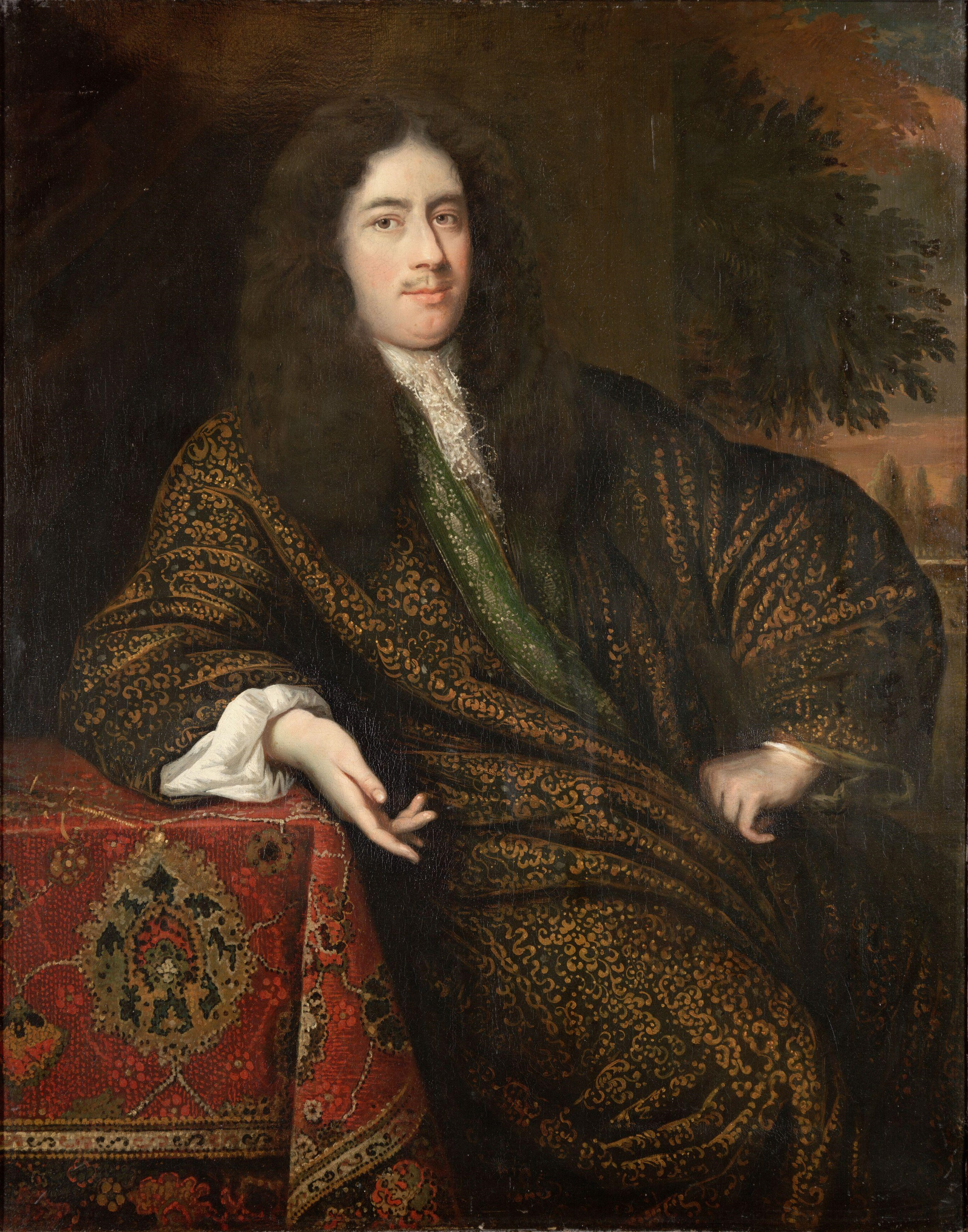 Portrait of François van Bredehoff painted in about 1675 by Jan de Baen. Photo given to me by the Westfries Museum. When re-used please give credits to the Museum as the museum is the source of this photo.